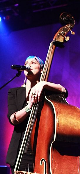 live at Copernicus Theater, Chicago